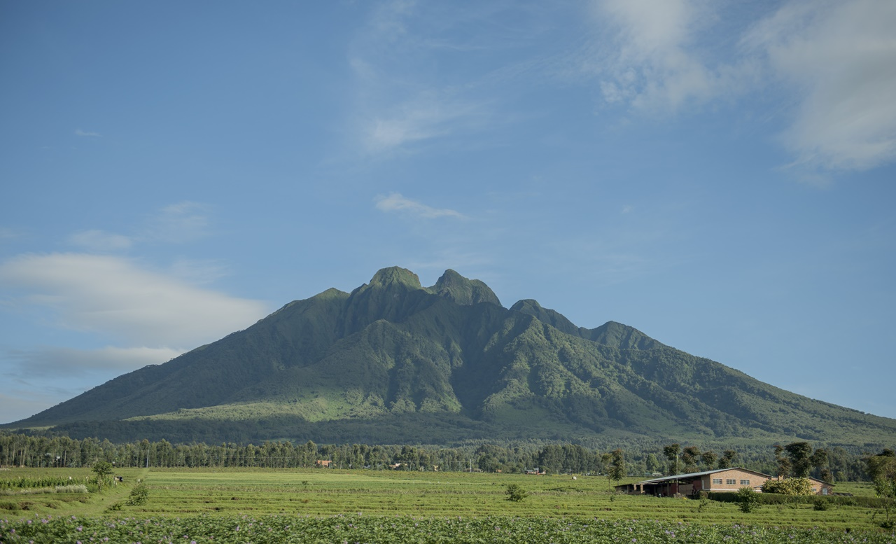 A great shot of a volcano named Sabyinyo, in Volcanoes National park. Located in Kinigi sector, Musanze district, Rwanda.